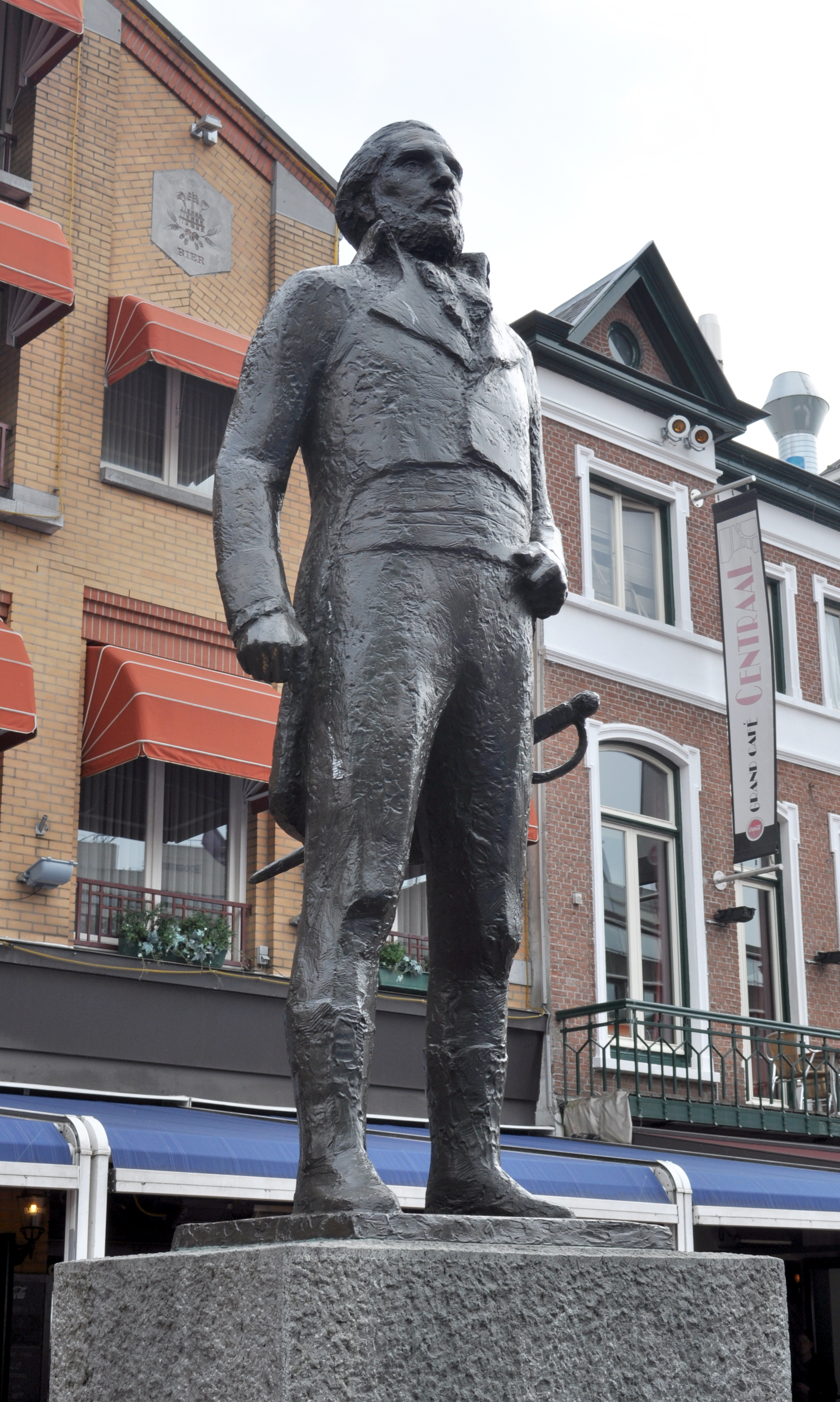 Statue of Jan van Hooff at the Markt in Eindhoven. Made by Auke Hettema in 1992.